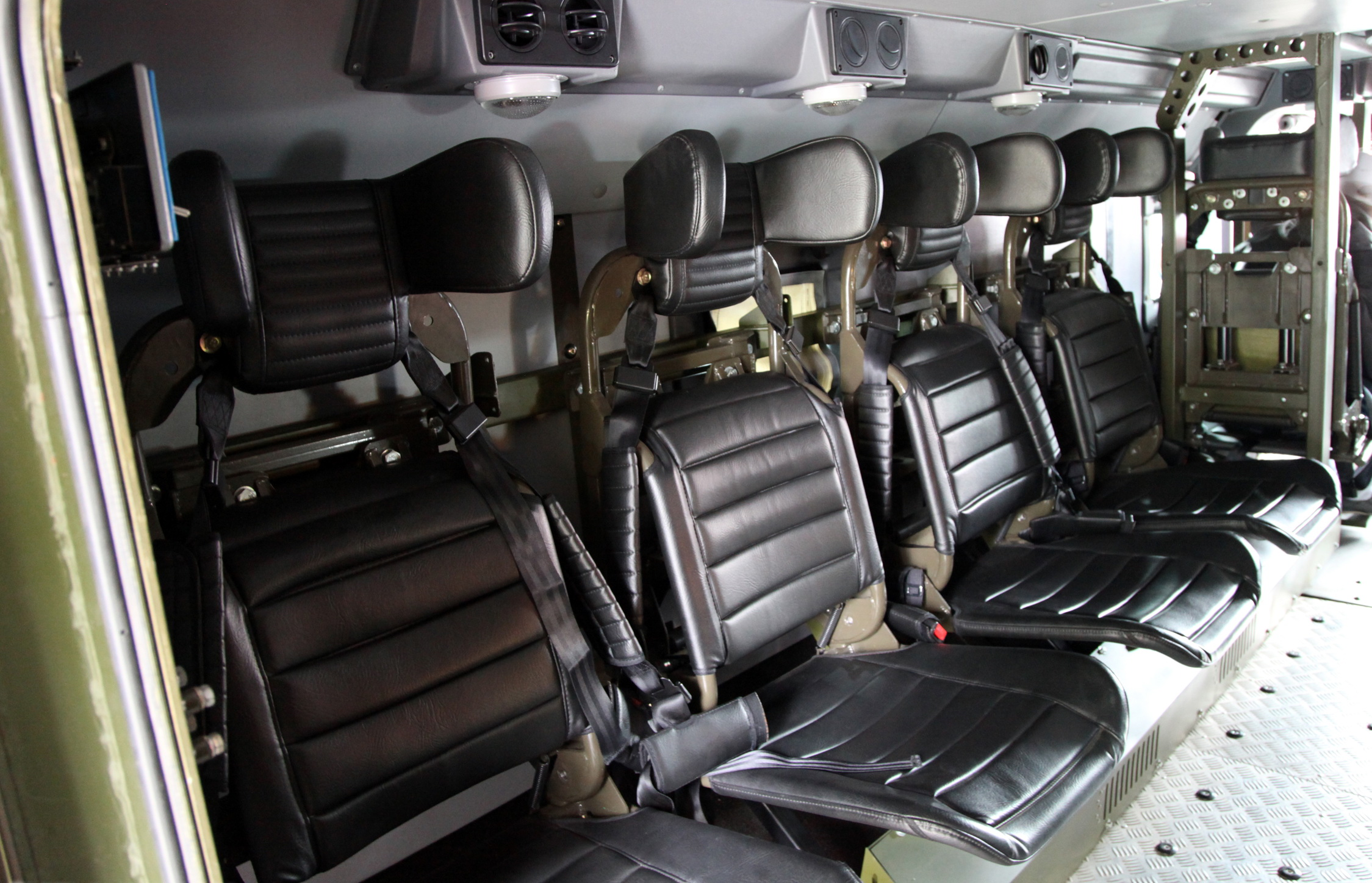 Ural-63099 armored vehicle inside